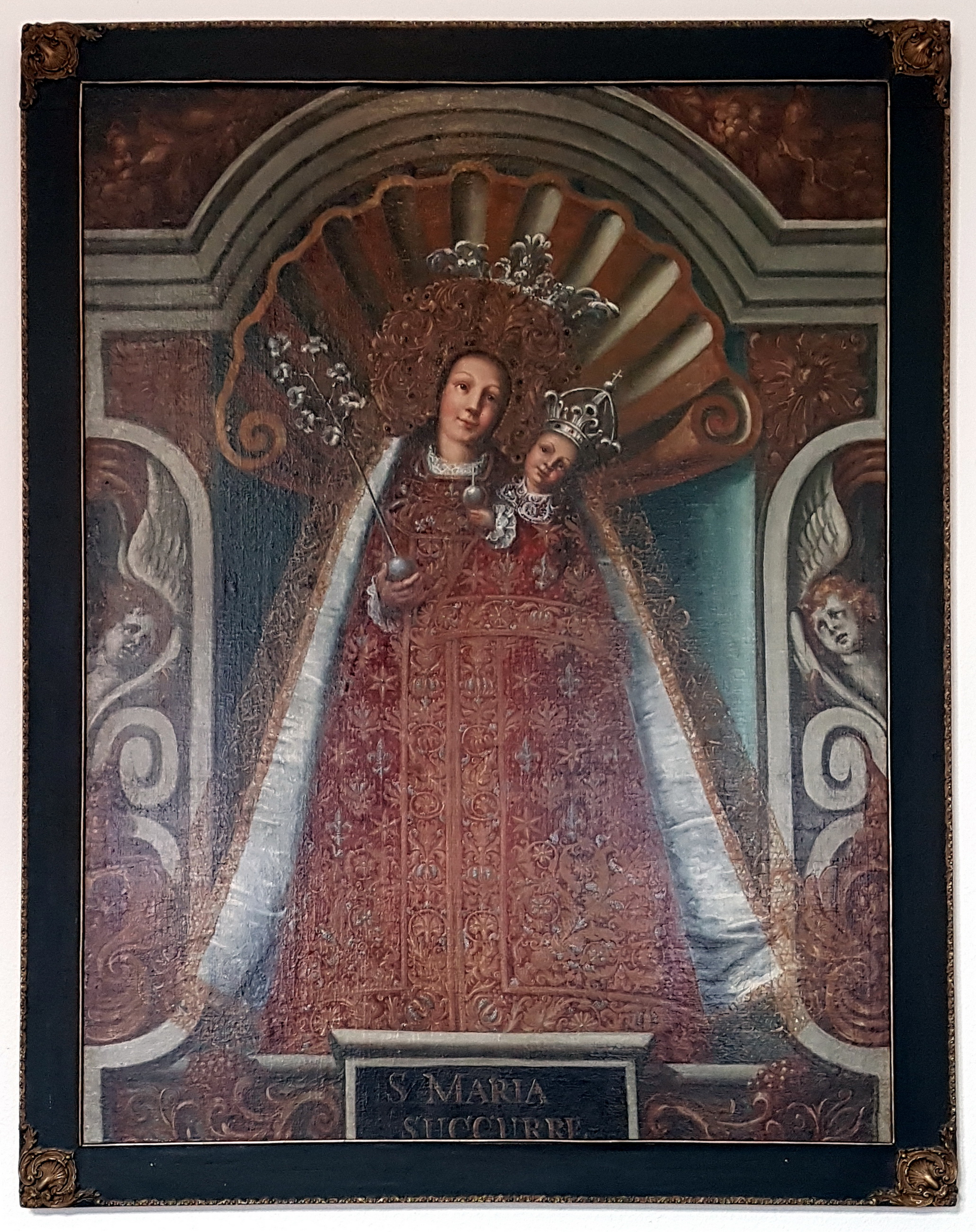 Convent of the Sisters of Mercy of St. Borromeo (Zusters Onder de Bogen) in Maastricht, the Netherlands. Interior of a museum room in the former provostry of Saint Servatius. In 1845 this building became the convent of the Sisters of Mercy of St. Borromeo and in 1864 this is where the congregation's foundress, Elisabeth Gruyters, died. The objects in these rooms are connected to Mother Elisabeth and the history of the congregation. This late 17th or early 18-century painting of Our Lady Star of the Sea was in her room. It measures 170 x 126 cm.